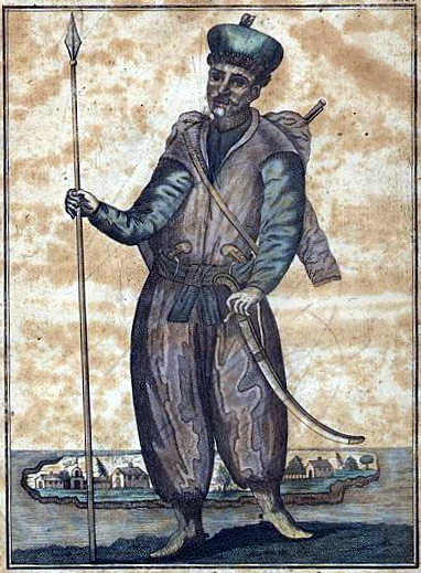 Black Sea Cossack (Ukrainian)